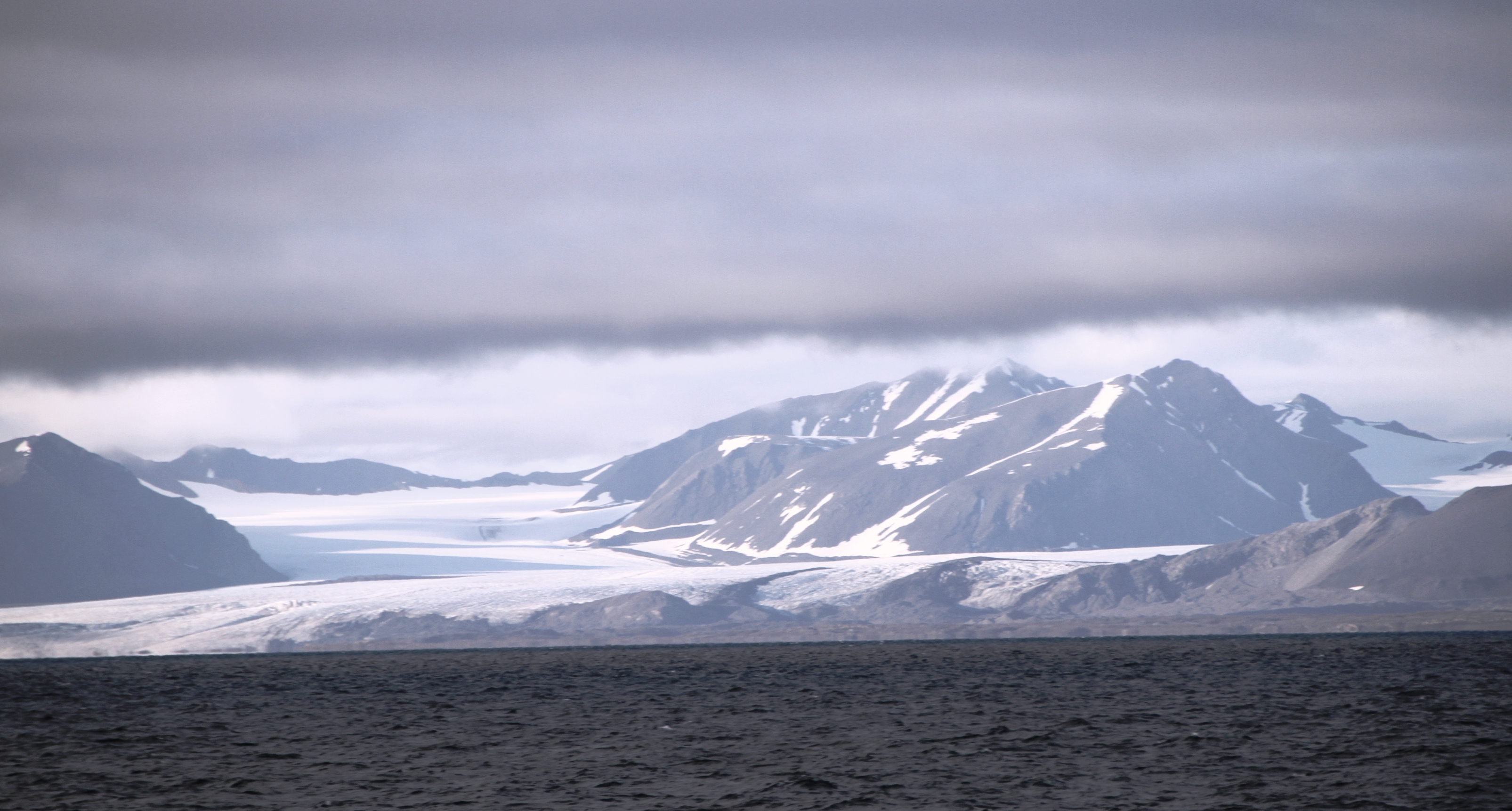 Image from the (south)east towards the (north)west, of the southernmost coast of Oscar II Land. The photographer is onboard a ship in the Isfjorden inlet. Western Spitsbergen, Svalbard.